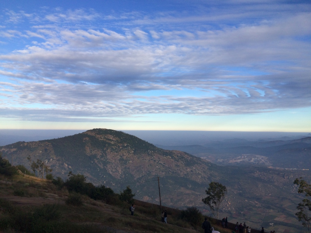 Nandi Hills or Nandidurg is an ancient hill fortress in southern India, in the Chikkaballapur district of Karnataka state. This photograph was shot at the break of the dawn.